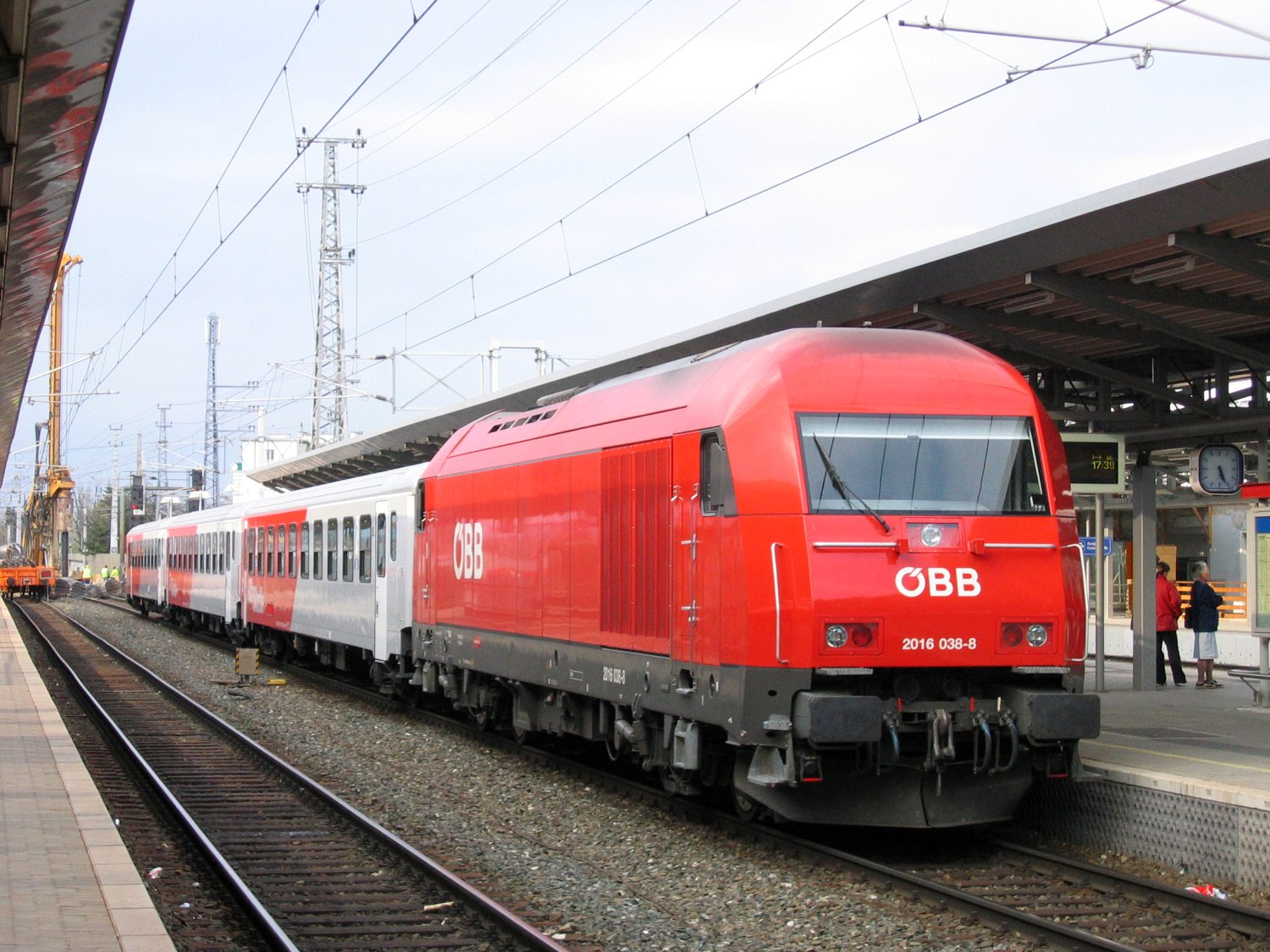 ÖBB 2016 038-8 with a "CityShuttle" push-pull train in Wiener Neustadt station in Lower Austria